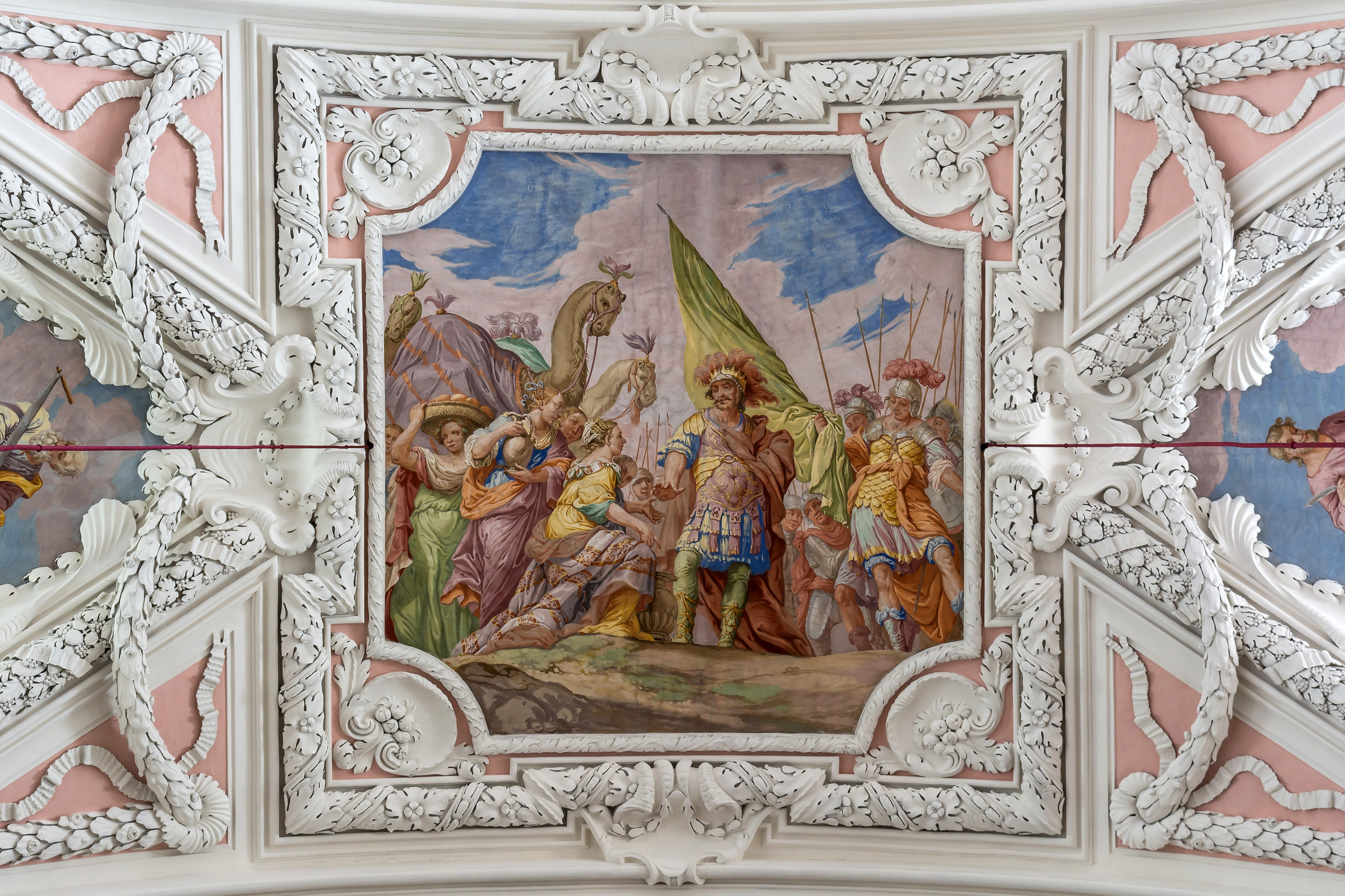 The frescos of the Catholic parish church of Garsten were made by Michael Christoph Grabenberger and his brothers Michael Georg and Johann Bernhard. The stuccos are the work of Giovanni Battista and Bartolomeo Carlone as well as Peter Camuzzi and Domenico Garon. Title of this fresco is "Abigail brings David the refused victuals (1 Sam 25,35)".